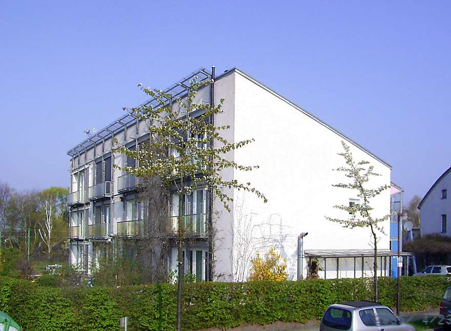 Original Passivhaus, Darmstadt, in spring.